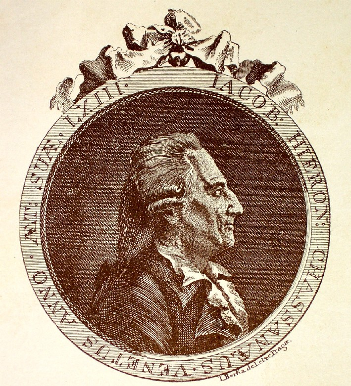 Medallion portrait of Casanova, done live in March 1788, engraving by Berka, used as frontispice for Icosameron (1788). Giacomo Girolamo Casanova, Venitian in his 63rd year.